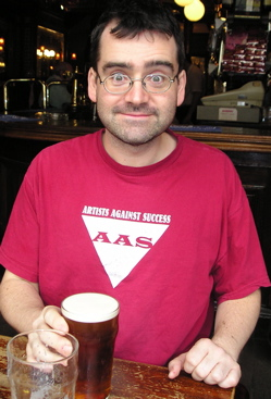 author: Jorma Lindgren, author requested upload to Wikipedia and it's released into the public domain but do feel free to give credit to Jorma.Lindgren if you use the picture even if you don't have to.